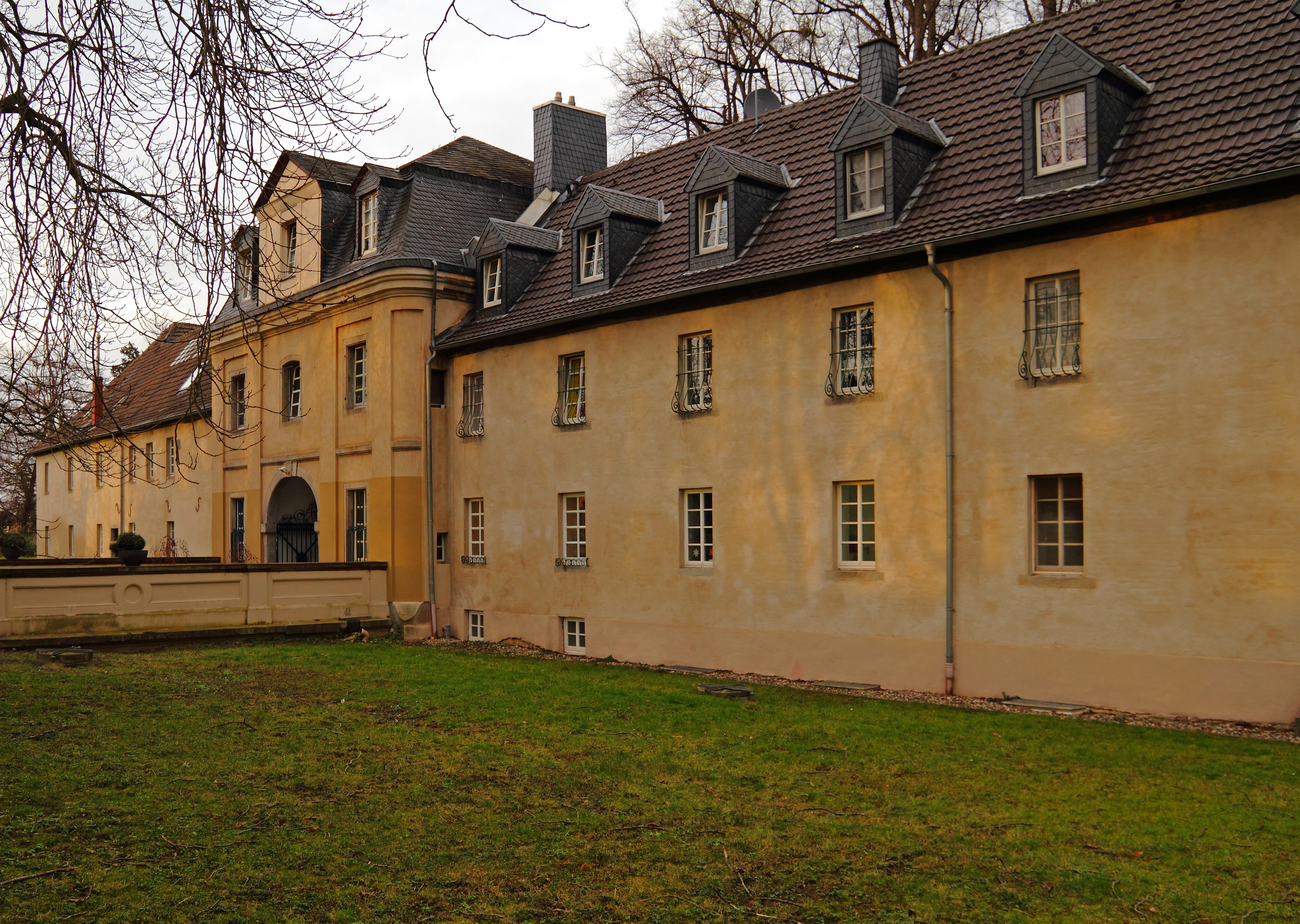 Bornheim Castle: former water castle with gate bridge